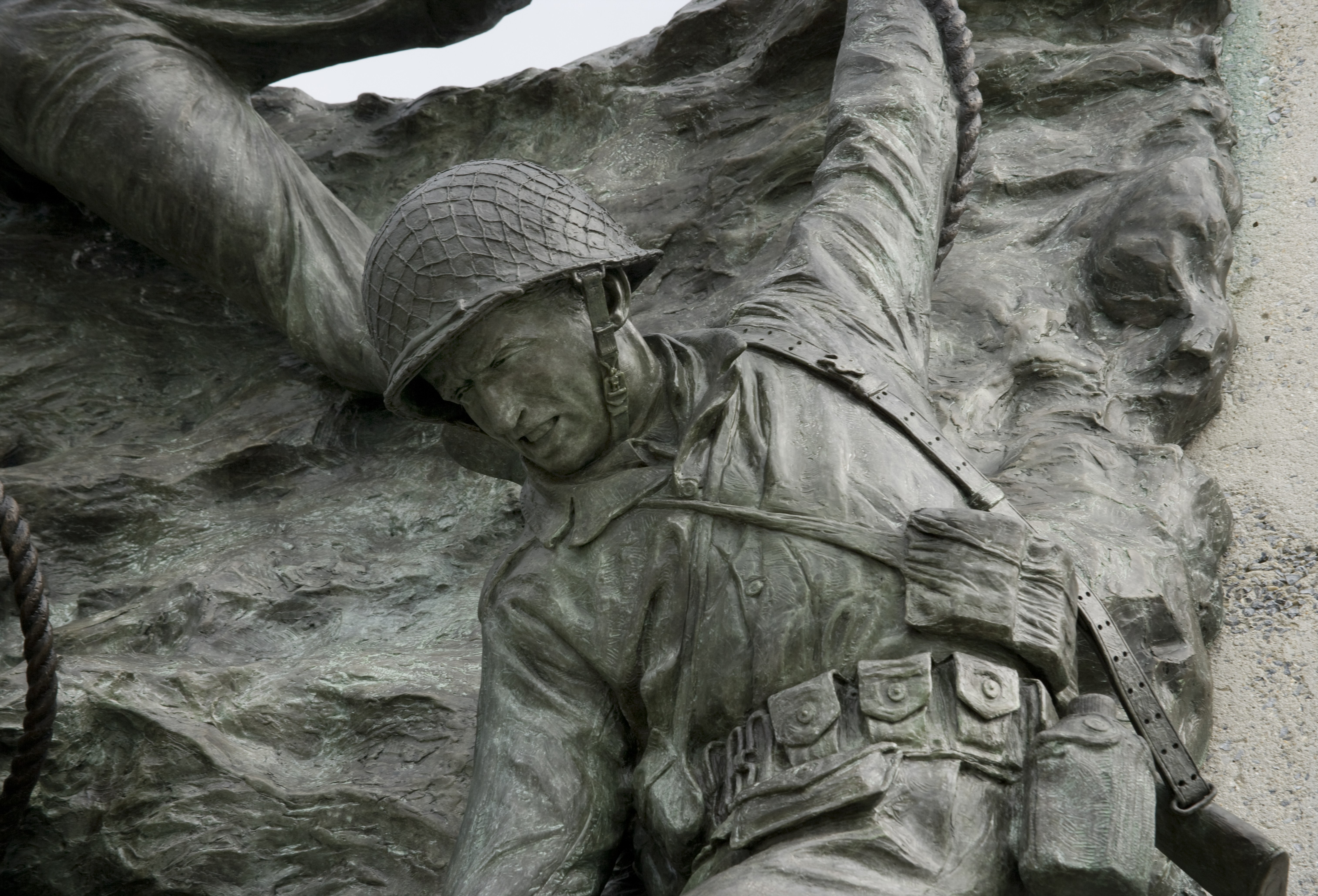 National D-Day Memorial, Bedford, Virginia MEDIUM: 1 photograph : digital, TIFF file, color. NOTES: The National D-Day Memorial consists of six components that correspond to events leading to and from D-Day. The first, Richard S. Reynolds Sr. Garden, represents the planning and preparation for D-Day. Elmon T. Gray Plaza, the largest circular component beyond Reynolds Garden, focuses on the Channel crossing and landing in France. Two smaller circular components contiguous with Gray Plaza acknowledge the role of the Air Force (Maurice T. Lawhorne Circle) and the Navy (circle as yet unnamed). The Overlord Arch is the central feature of Robey W. Estes, Sr., Plaza, which memorializes the Allies' D-Day victory and beachhead consolidation. Beyond it, Edward R. Stettinius, Jr., Parade fans outward from its central walkway to symbolize the Allies' wide-ranging effort to vanquish the Axis, restore Europe, and secure the peace.